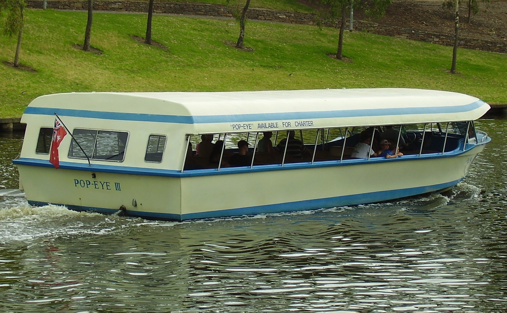 Popeye number III on the river torrens, Adelaide, South Australia